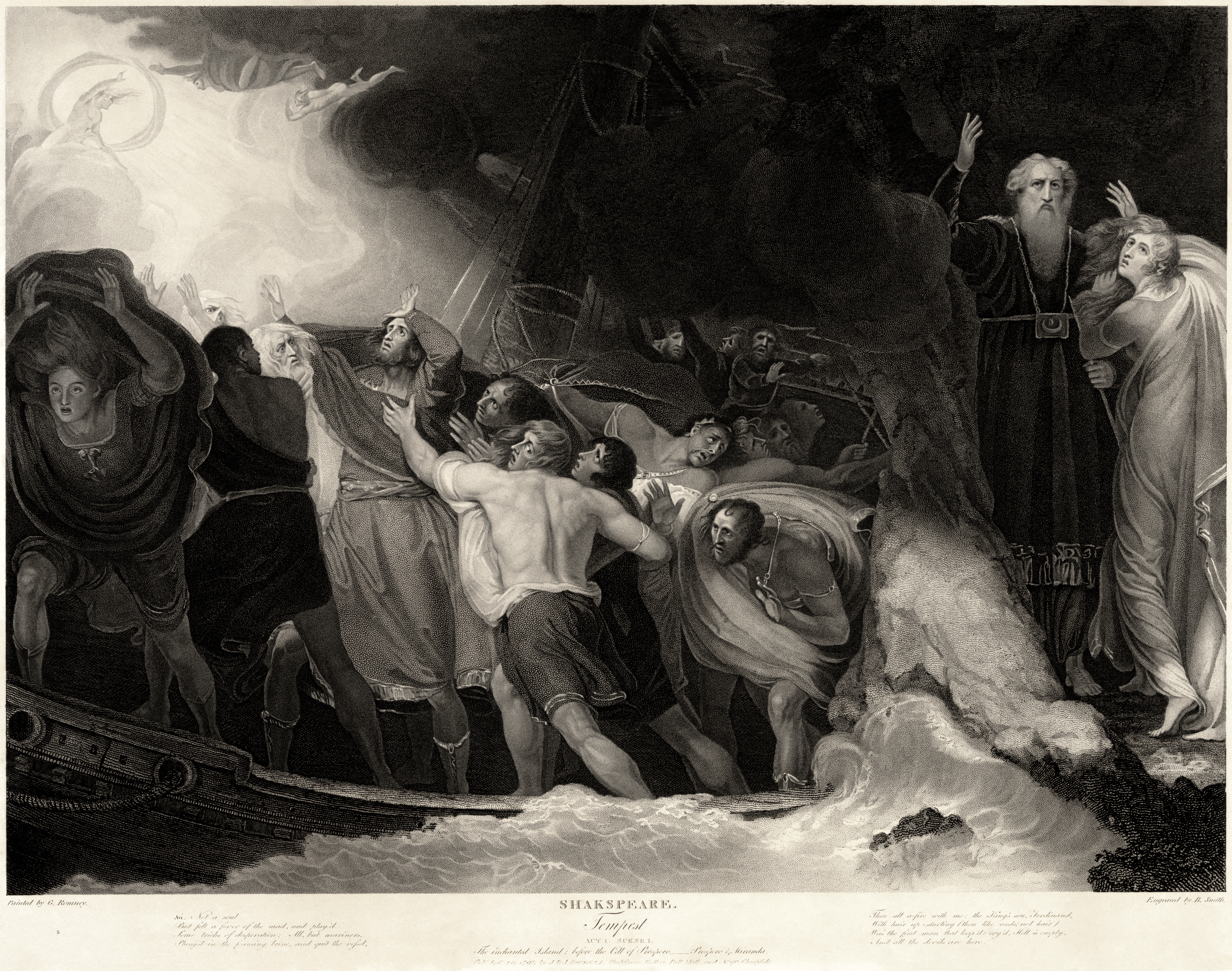 Act I, Scene 1 of The Tempest by William Shakespeare, in an engraving by Benjamin Smith based on a painting by George Romney. Published by J. & J. Boydell at the Shakespeare Gallery, Pall Mall & at No. 90 Cheapside. The titular tempest wrecks the ship of King Alonso. As revealed in Act I, Scene 2, the tempest was conjured by Prospero (old man, right), who sent the spirits (seen in the upper left) to create the storm. His daughter Miranda clings to him, as she does in Scene 2, begging for the lives of those on the vessel - but Prospero assures her used his magic to prevent anyone from dying, though he will lead people to believe that others have in the events to come in the play. His brother, Antonio, who usurped his place as the Duke of Milan, is on the vessel, and it is against him he seeks revenge...